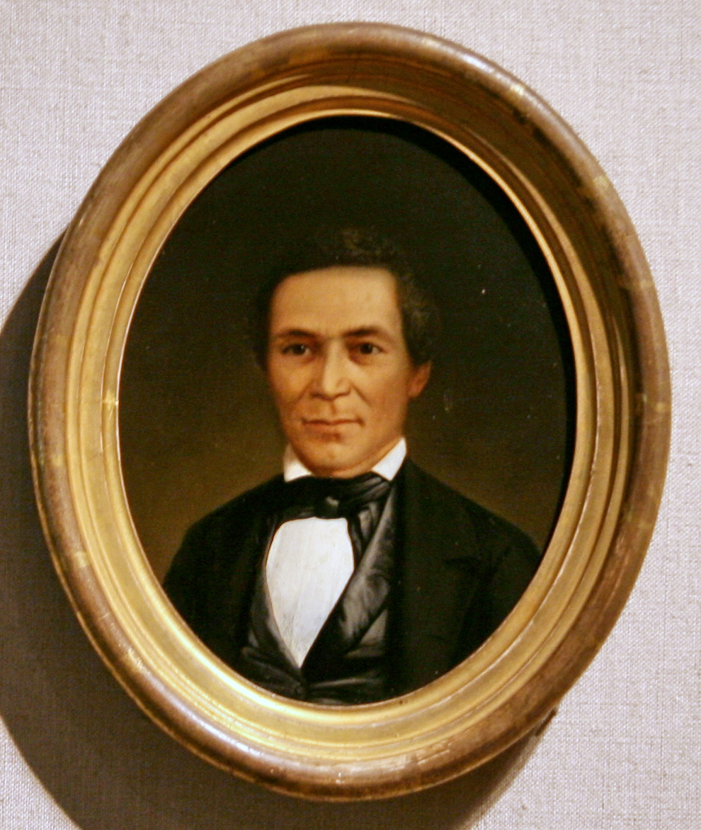 John Russwurm, c. 1850, Oil on canvas by Unidentified Artist The son of an American merchant and a Jamaican slave, John B. Russwurm, one of the first blacks to earn a college degree, graduated from Bowdoin College in 1826. The following year, he became co-editor of Freedom's Journal, the first black newspaper published in the United States. "We wish to plead our own cause. Too long have others spoken for us," the editors proclaimed. "Our vices and our degradation are ever arrayed against us, but our virtues are passed by unnoticed." Initially Russwurm opposed the project to colonize freed slaves in Africa, but in 1829, he announced he had become converted to the idea, and shortly emigrated to Monrovia as an agent of the American Colonization Society. In 1836 Russwurm became the first black governor of the Maryland area of Liberia.